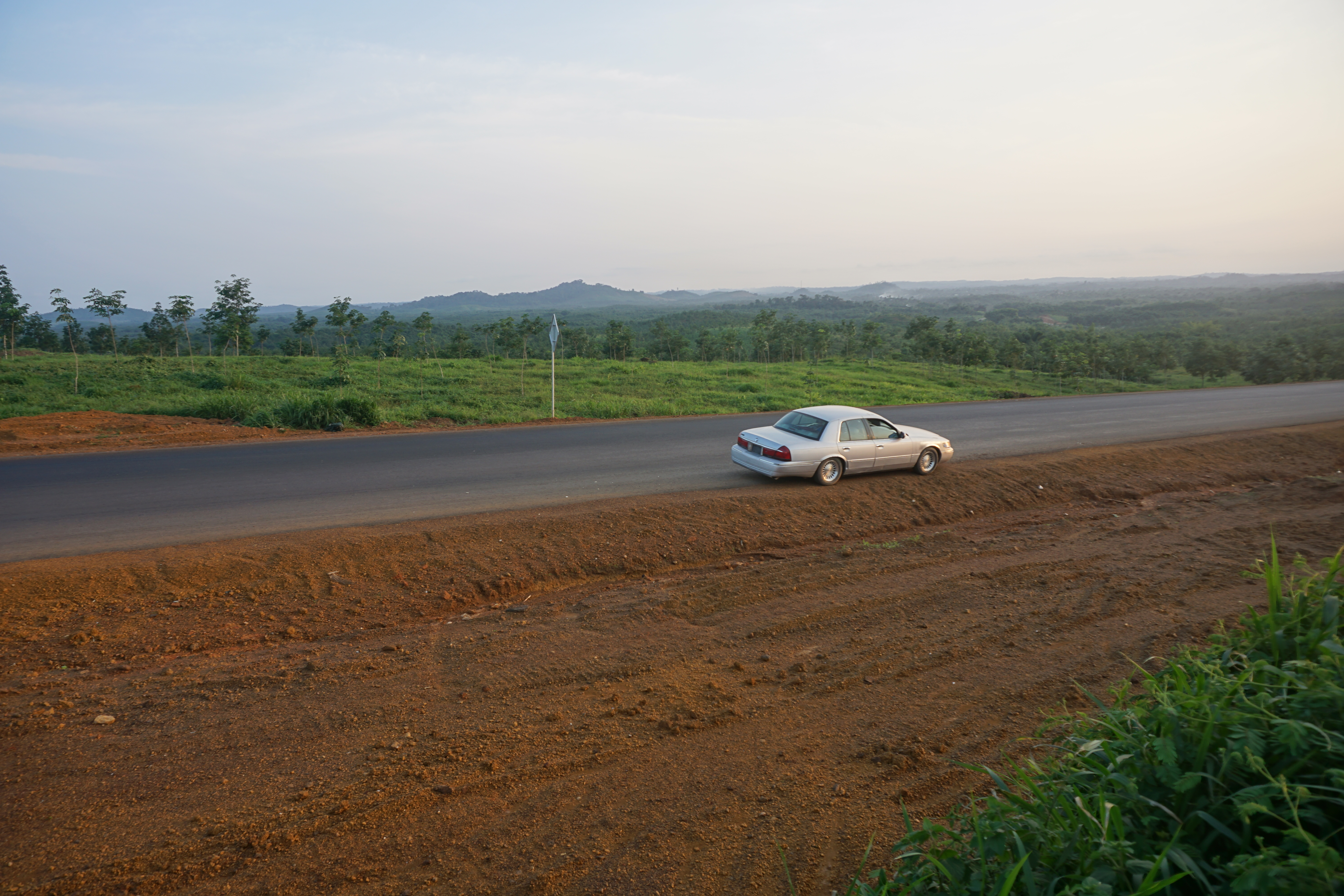 This is an image from Liberia